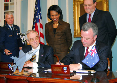 Details: AUSTRALIA ENTERS NEXT PHASE OF JSF PROGRAM Australia has entered the next stage of the F-35 JSF Program by signing the JSF Production, Sustainment and Follow-on Development (PSFD) Memorandum of Understanding (MoU). The PSFD MoU was signed for the US Government by the US Deputy Secretary of Defense, Mr Gordon England, and Minister for Defence Dr Brendan Nelson, on behalf of the Australian Government. Photo by Mass Communication Specialist 1st Class Brandan W. Schulze (US Navy)